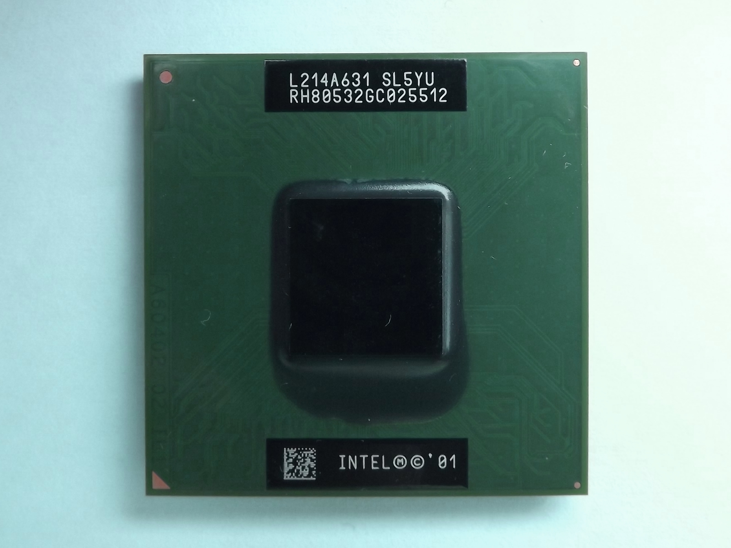 Intel Pentium 4 Mobile (Northwood) with 1,6GHz for socket PGA478